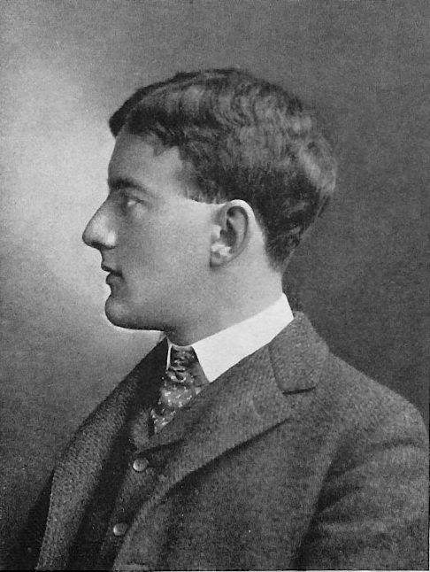 Photograph of John Strong Perry Tatlock